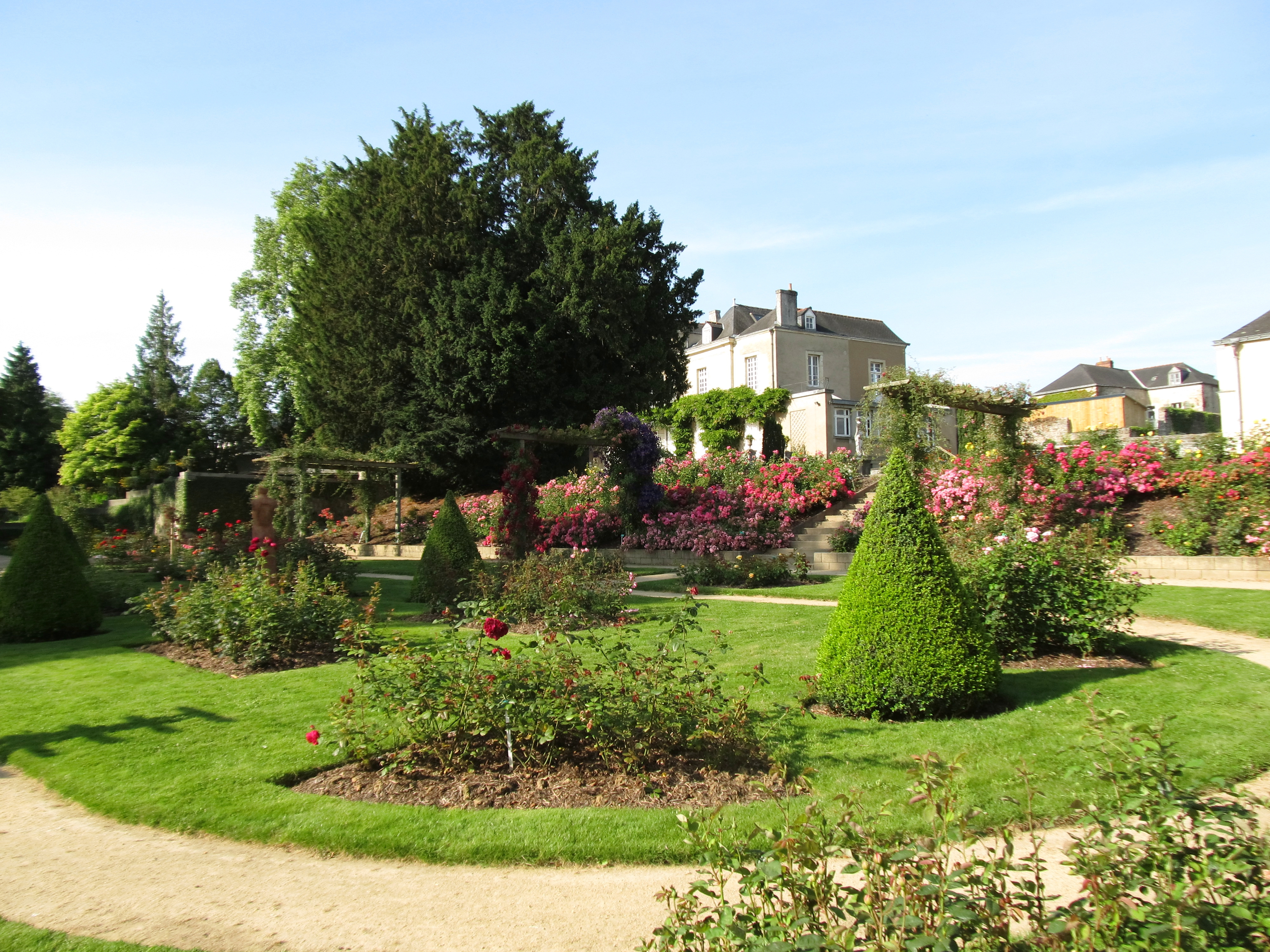 Jardin de la Perrine, Laval, Mayenne, France.